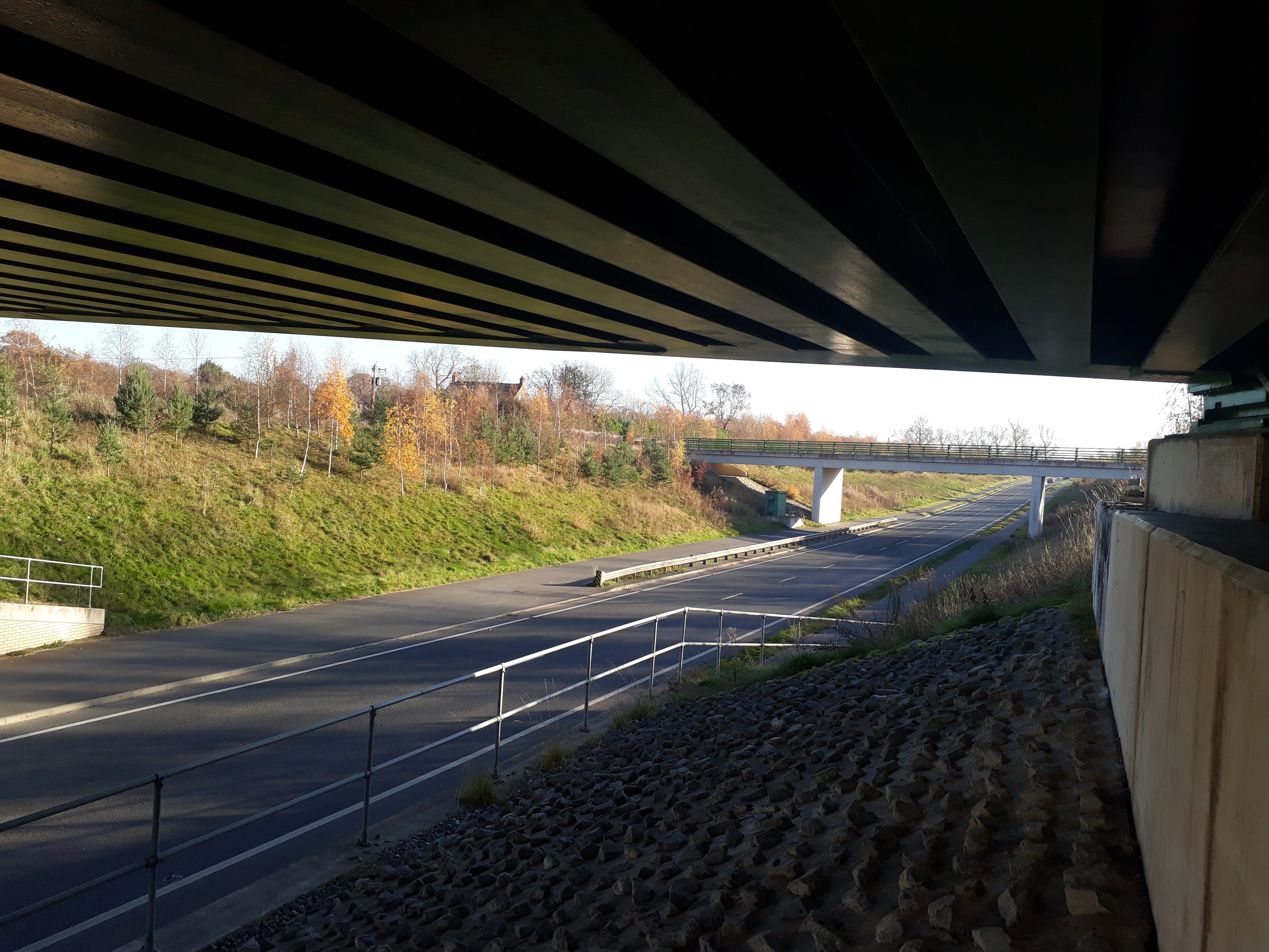 A picture of the A34 Alderley Edge bypass (Melrose Way) taken under a bridge next to the road